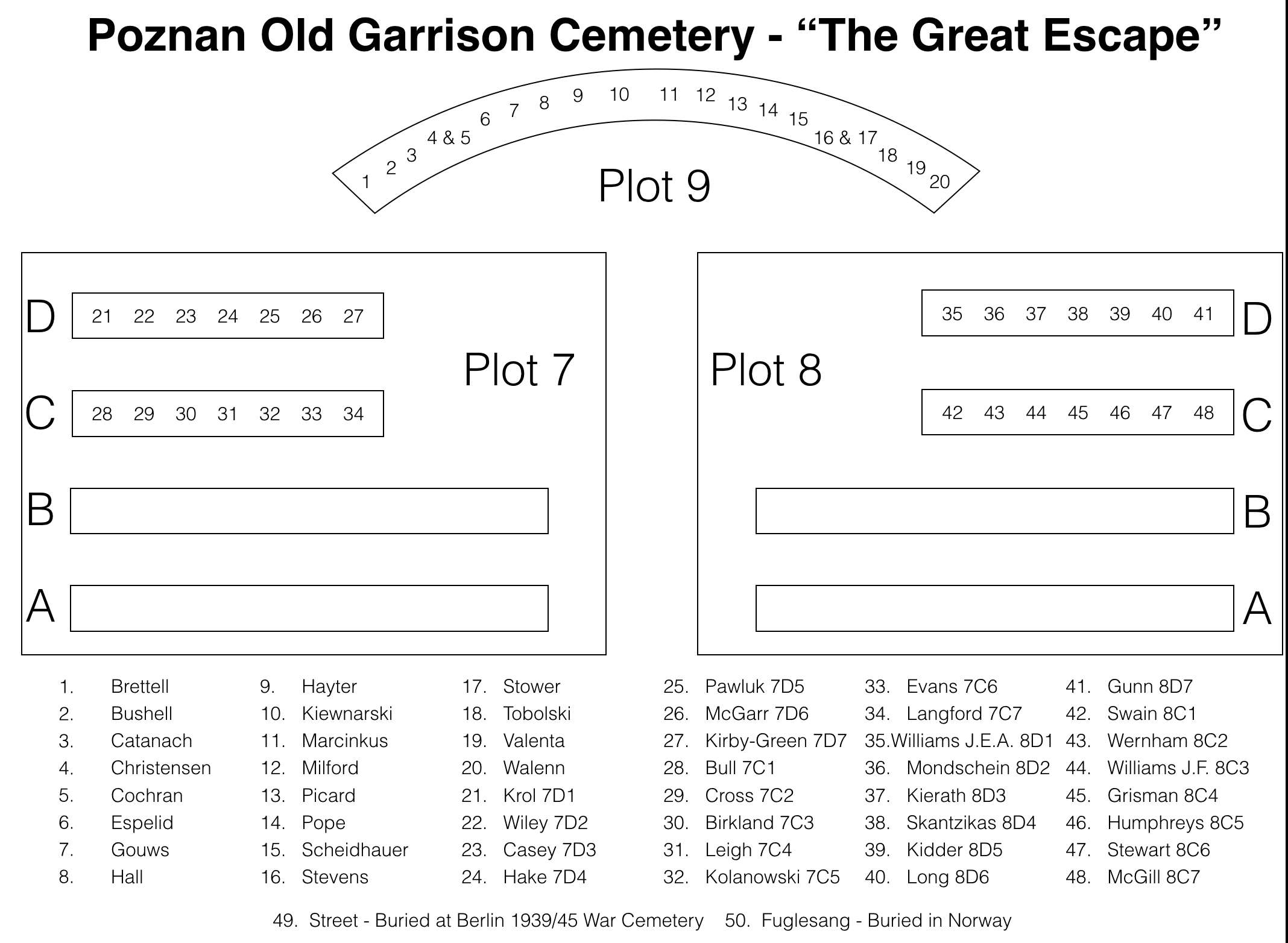 A graphic of the plots occupied by 48 of the 50 officers of the Great Escape at Poznan Old Garrison Cemetery.